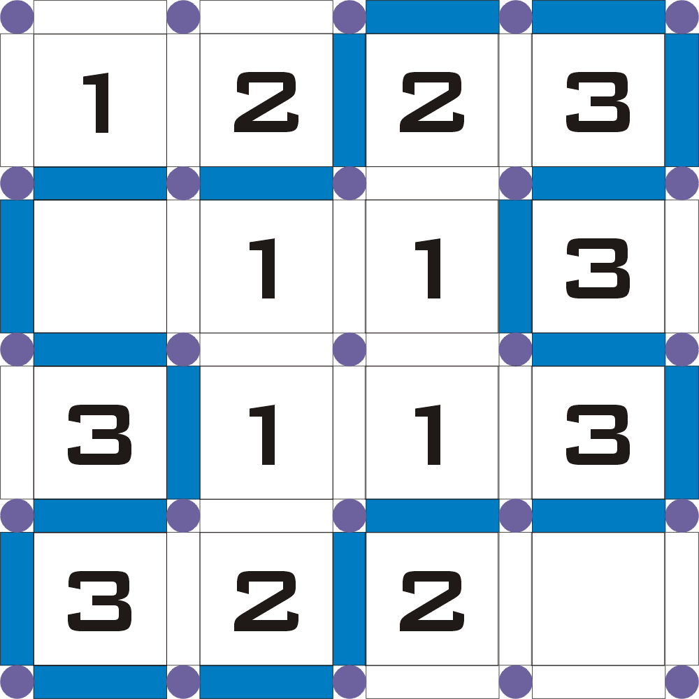 Solution of a Suriza